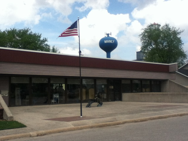 Photo of the Manly Public Library with one of the town's water towers in the background.